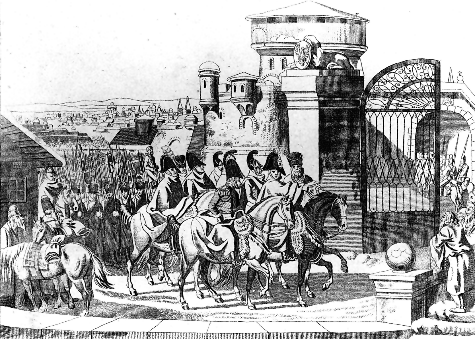 Russian army entering Warsaw in 1813